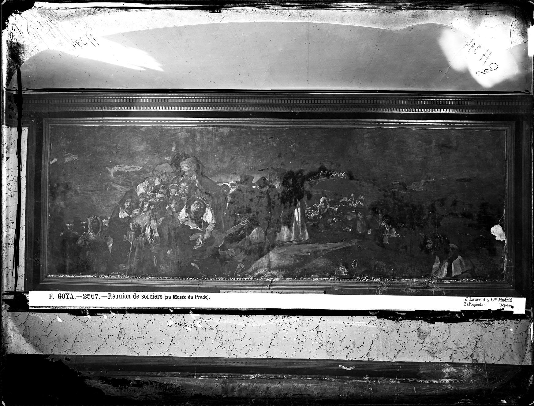 Black Paintings. Mural painting known as "The Pilgrimage of San Isidro", photographed in 1874 at the Quinta de Goya (or Quinta del Sordo), by J. Laurent. The original glass negative is preserved today in the Archives Ruiz Vernacci, Institute of Cultural Heritage of Spain, in Madrid. To the left of the painting there is a corner of the room, and not a window as mentioned before. You have to enlarge the picture.